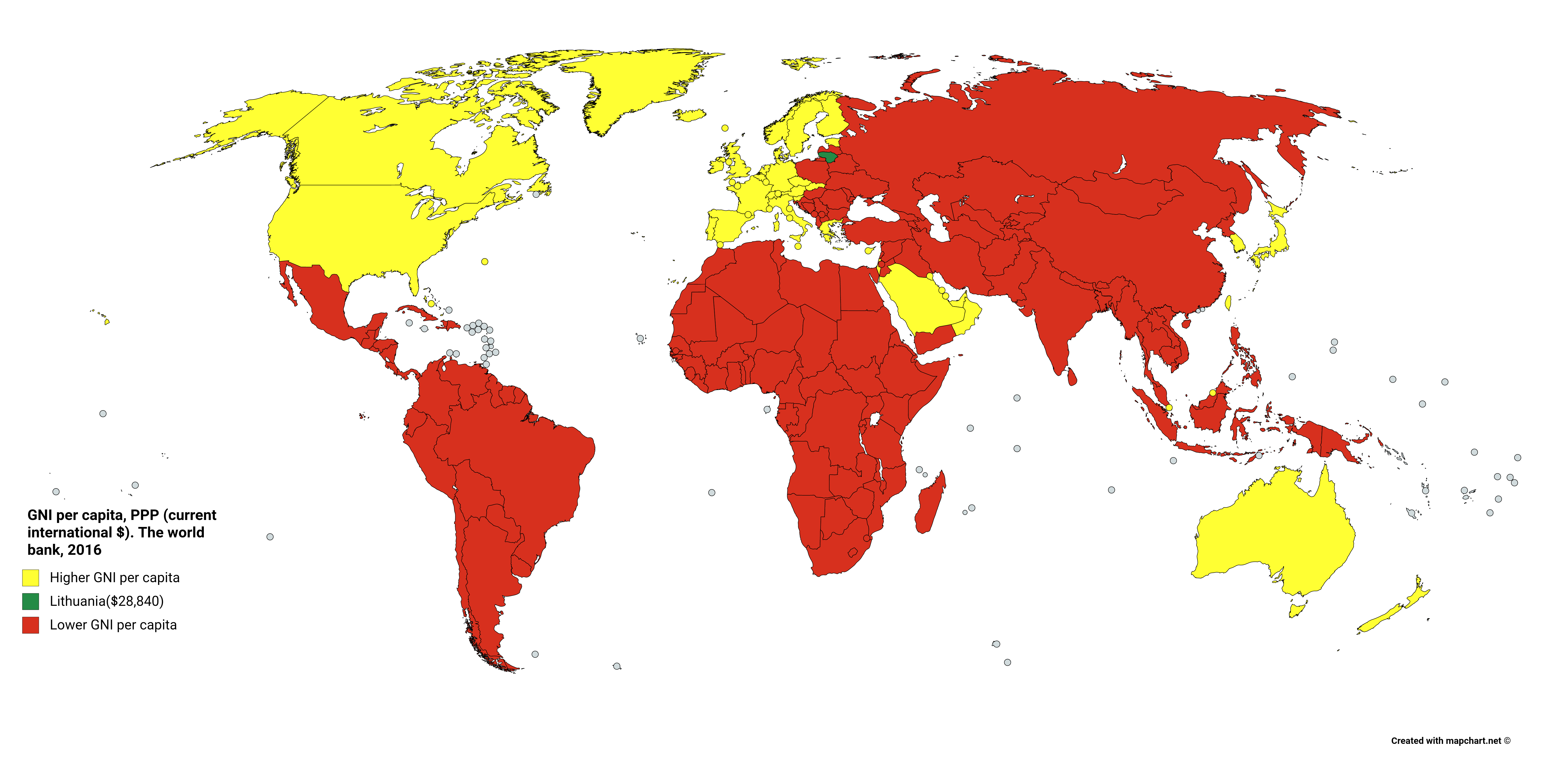 GNI per capita(Lithuania)